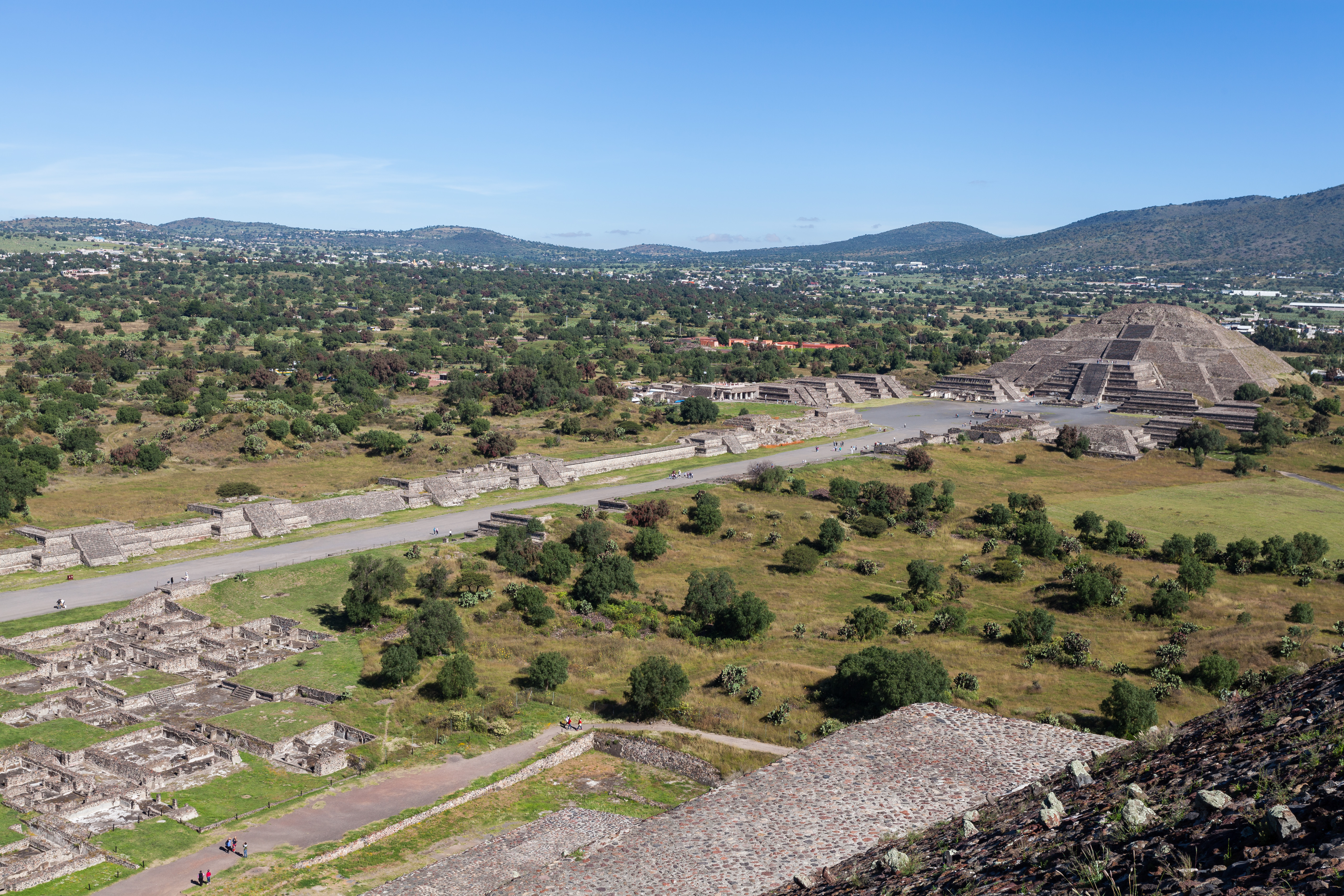 Pyramid of the Moon, Teotihuacán, Mexico